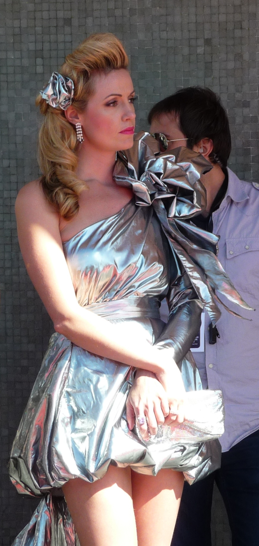 British actress Elize du Toit at the 2009 BAFTA award ceremony in London.